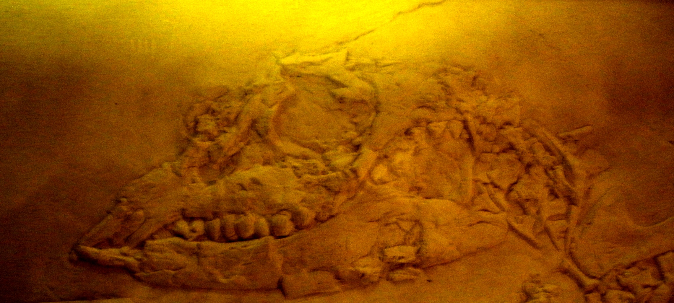 Fossil of Paraplacodus broili, an extinct placodont reptile Took the photo at Museo di Storia Naturale di Milano